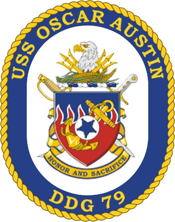 Emblem of the USS Oscar Austin (DDG-79)